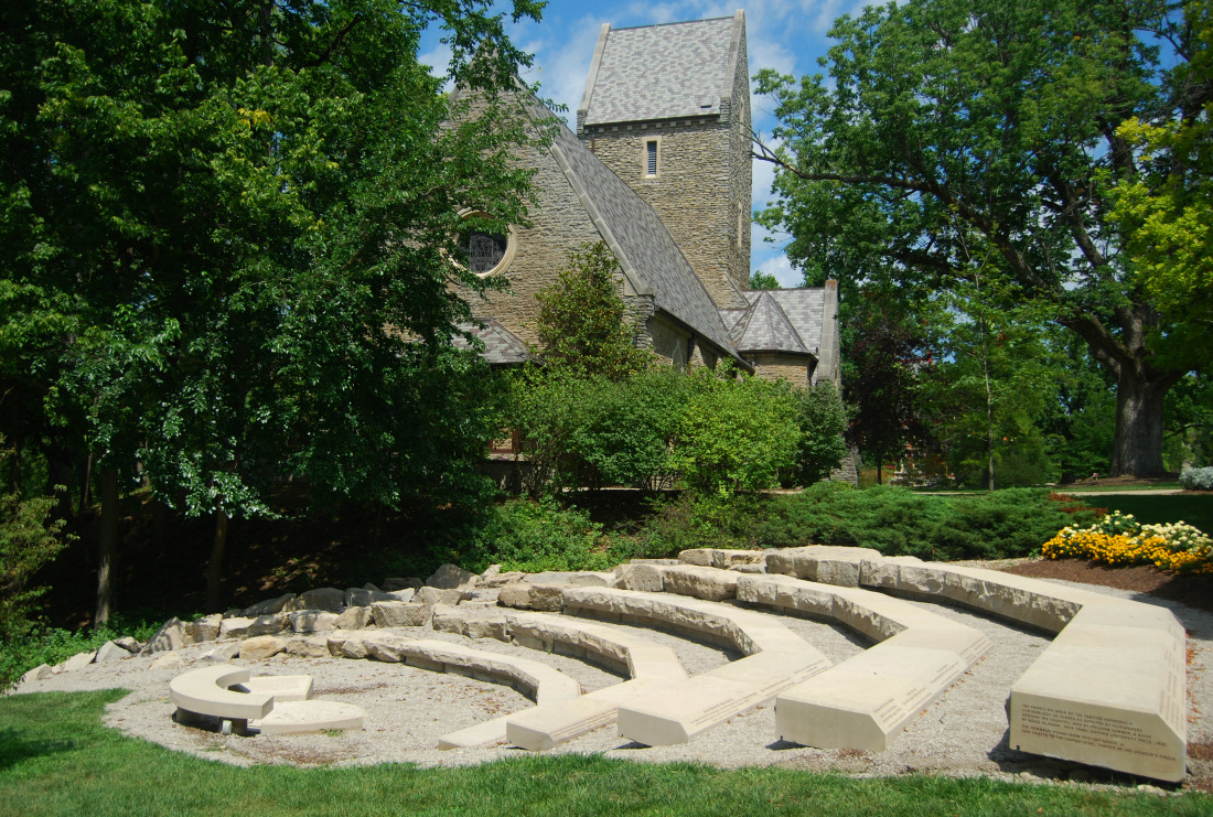 The stone memorial for Freedom Summer, placed on the side of the Kumler Chapel on the Western Campus of Miami University.